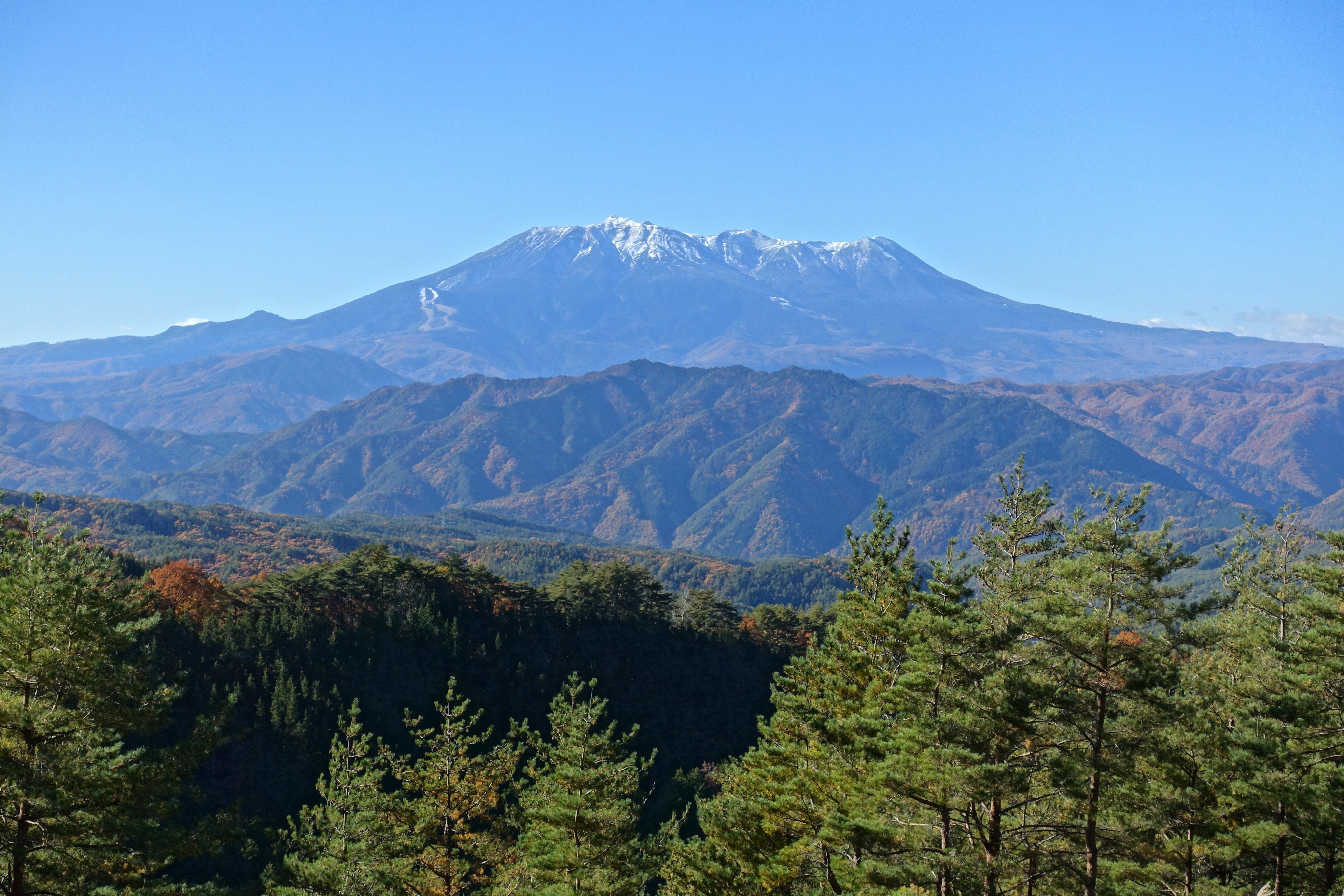 ESE side of Mount Ontake from Kiso Valley in autumn. Mount Ontake is the second tallest volcano in Japan. The view is from Kibio Pass.